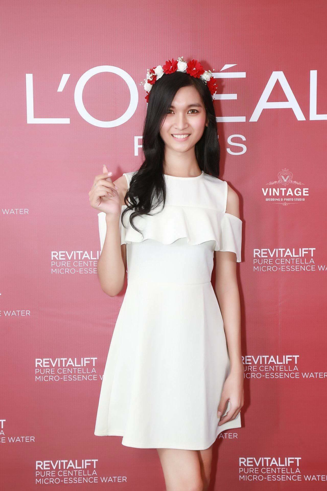 Myo Ko Ko San in L'OREAL Event